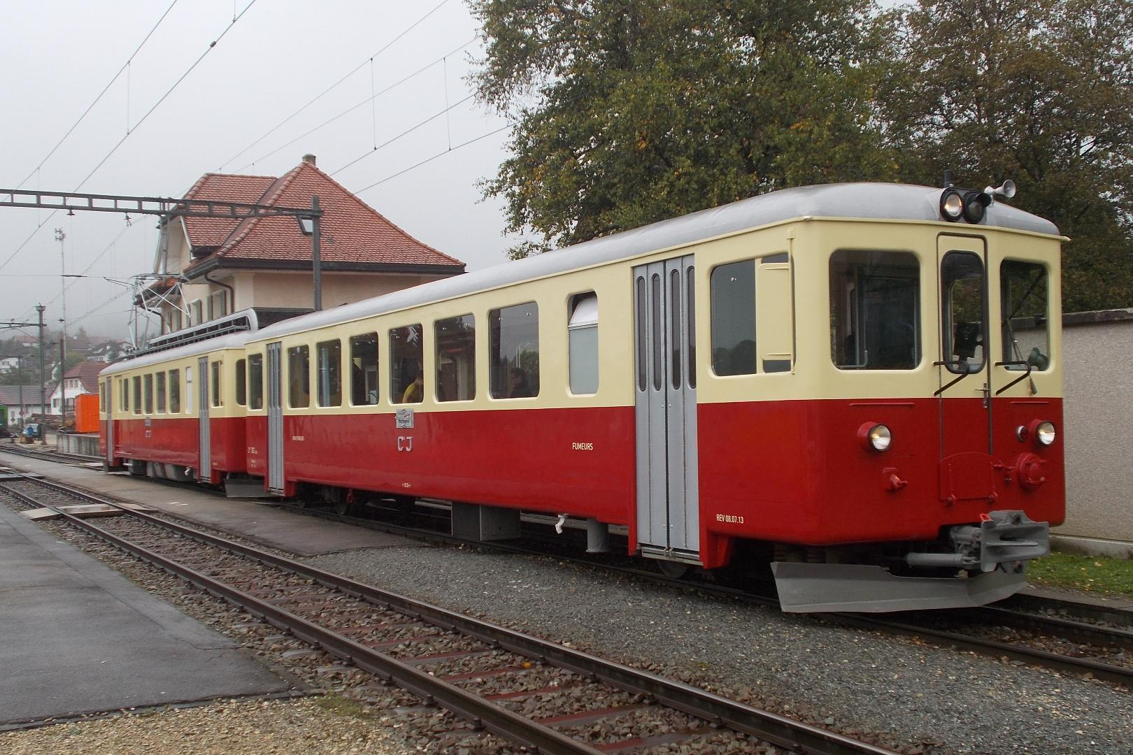 Historical Push–pull train of the Chemins de fer du Jura (CJ) with CFe 4/4 601 and Ct4 702 at Le Noirmont. (Switzerland)